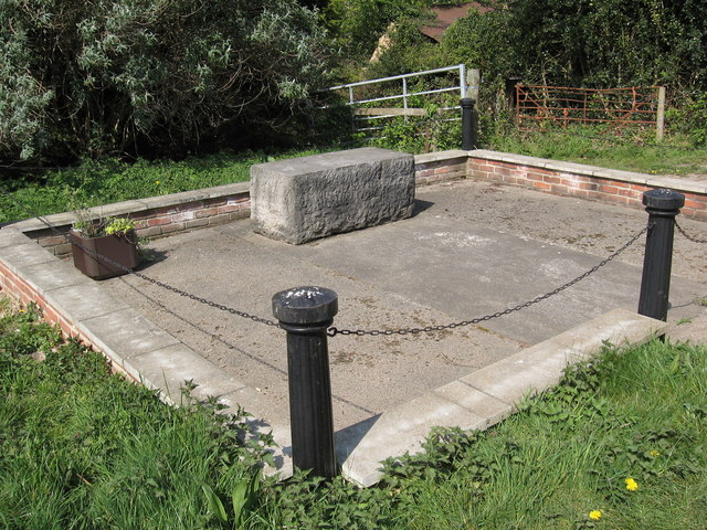 Cripplestyle Ebenezer Chapel Memorial The chapel that stood on this site was built in 1807 of 'clay, heather, wood and thatch'. It was extended twice, but despite efforts to preserve it, it collapsed in October 1976.